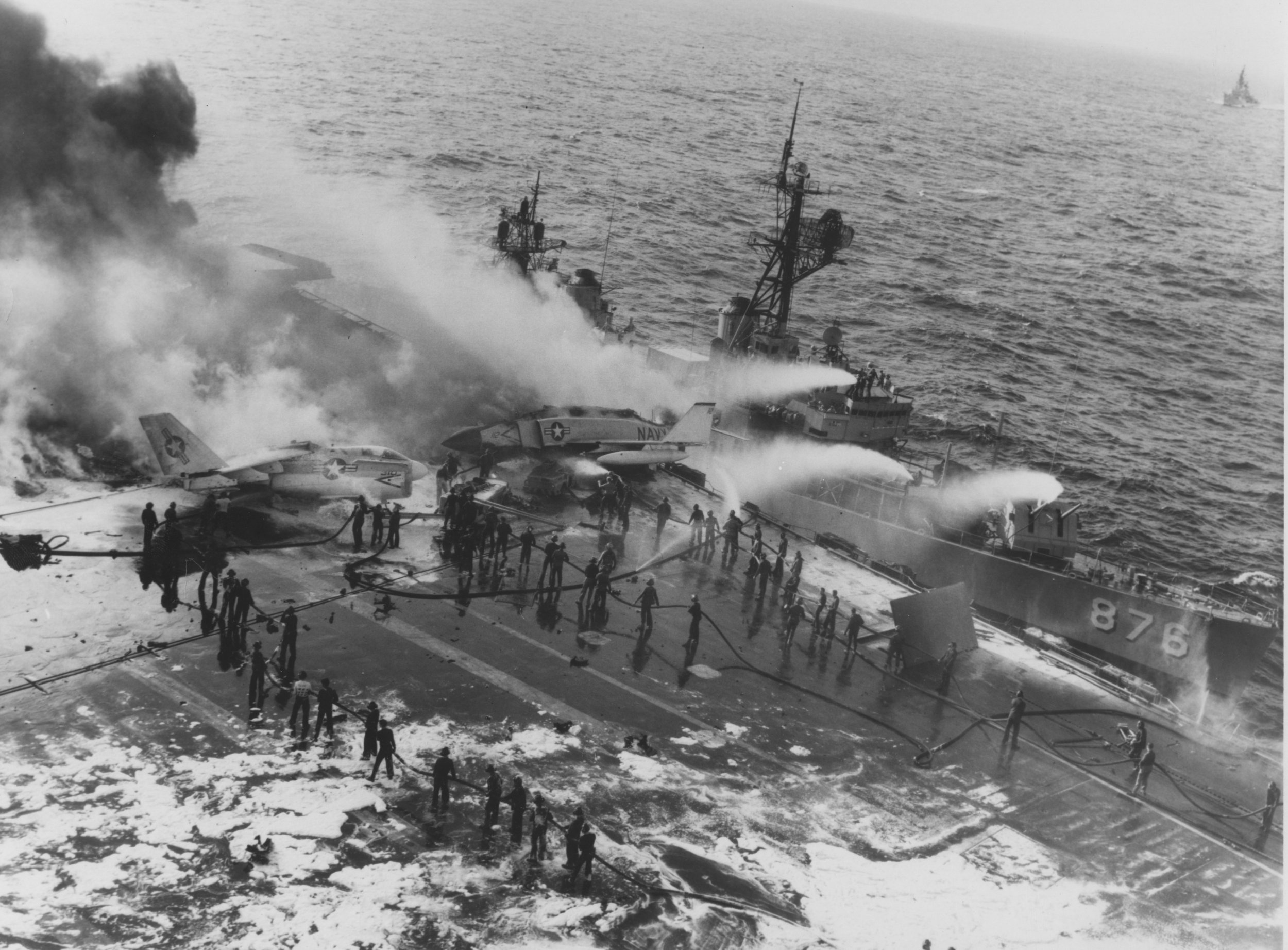 USS Rogers (DD-876) alongside the aircraft carrier USS Enterprise (CVAN-65) helping fight the fire aboard, and USS Benjamin Stoddert (DDG-22) — upper right corner — making approach to lend assistance. USS Rogers was awarded the Meritorious Unit Commendation.